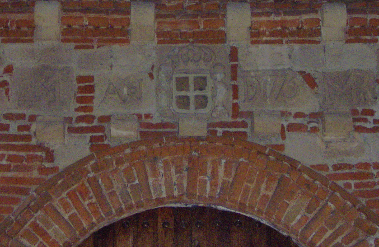 Picture taken of the Coat of Arms of Guadalajara de Buga.